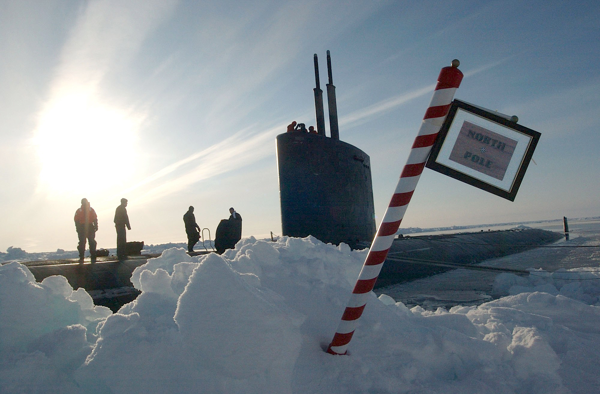 North Polar Region (Apr. 19, 2004) - The crew of the Los Angeles-class attack submarine USS Hampton (SSN 767) posted a sign reading "North Pole" made by the crew after surfacing in the polar ice cap region. Hampton and the Royal Navy Trafalgar class attack submarine HMS Tireless took part in ICEX 04, a joint operational exercise beneath the polar ice cap. Both the Tireless and Hampton crews met on the ice, including scientists traveling aboard both submarines to collect data and perform experiments. The Ice Exercise demonstrates the U.S. and British Submarine Force's ability to freely navigate in all international waters, including the Arctic. U.S. Navy photo by Chief Journalist Kevin Elliott. (RELEASED)